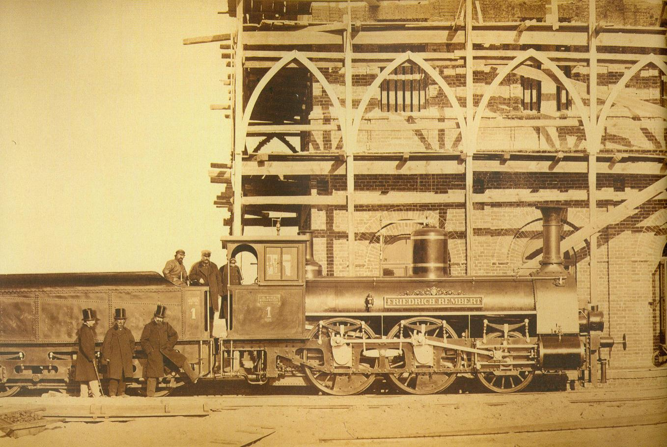 Friedriech Rembert steam engine at the Terespol Station in Warsaw, Poland. Locomotive built by Sigl (Wiener Neustädter Lokomotivfabrik), designated as series Зп (Zp)